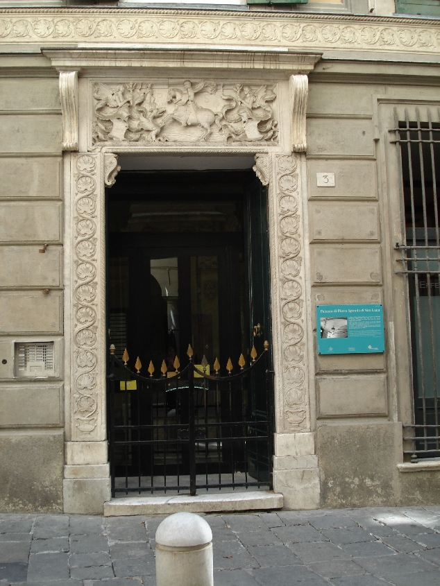 Entrance portal of Palazzo Spinola di San Luca — in Genova. With Italian Renaissance relief of Saint George on lintel, and with stone brackets and other reliefs.